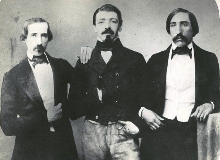 Miguel Luis Amunátegui, Domingo Santa María y Gregorio Víctor Amunátegui en 1848